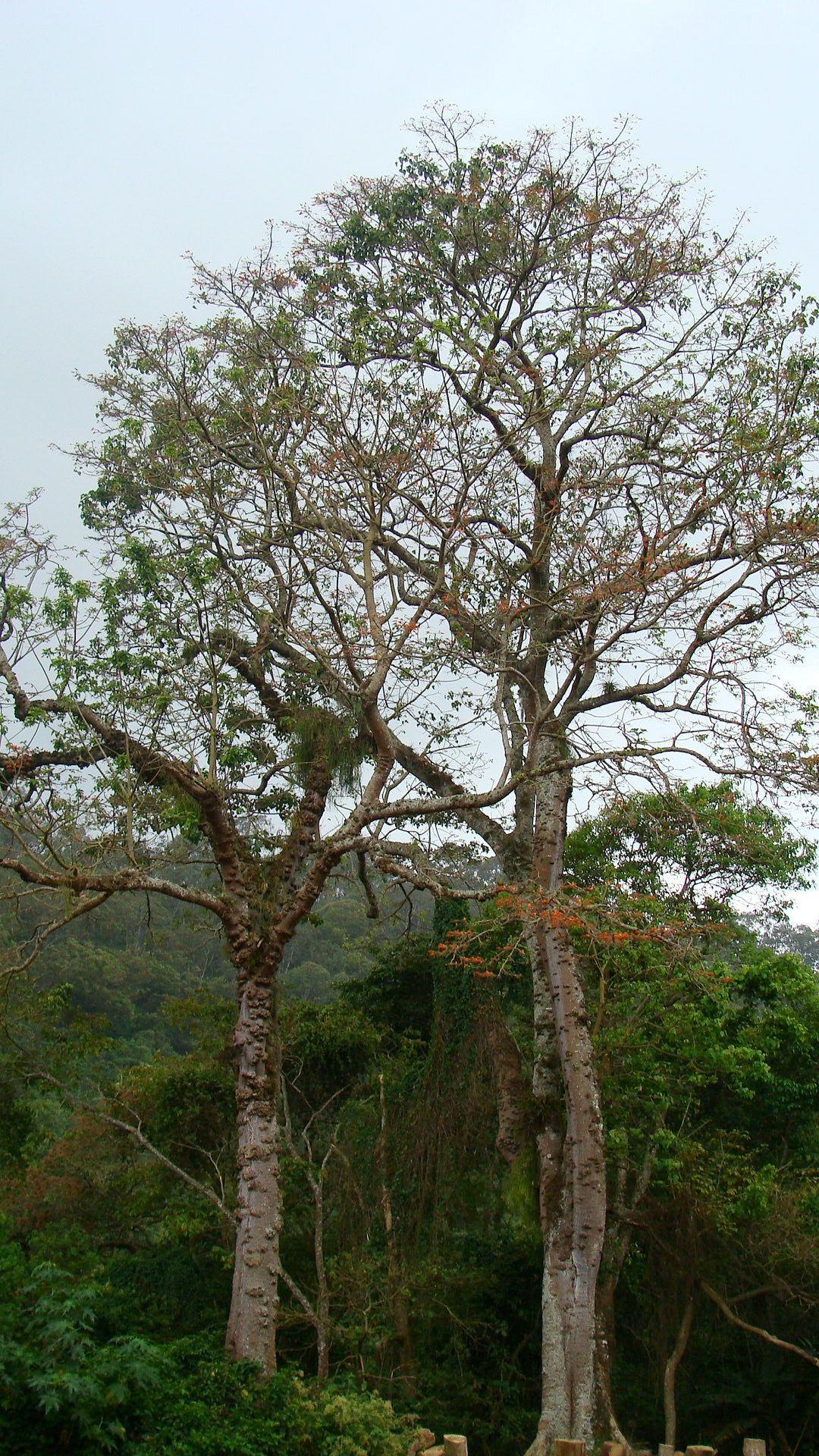 Erythrina poeppigiana (Spanish: bucare ceibo)